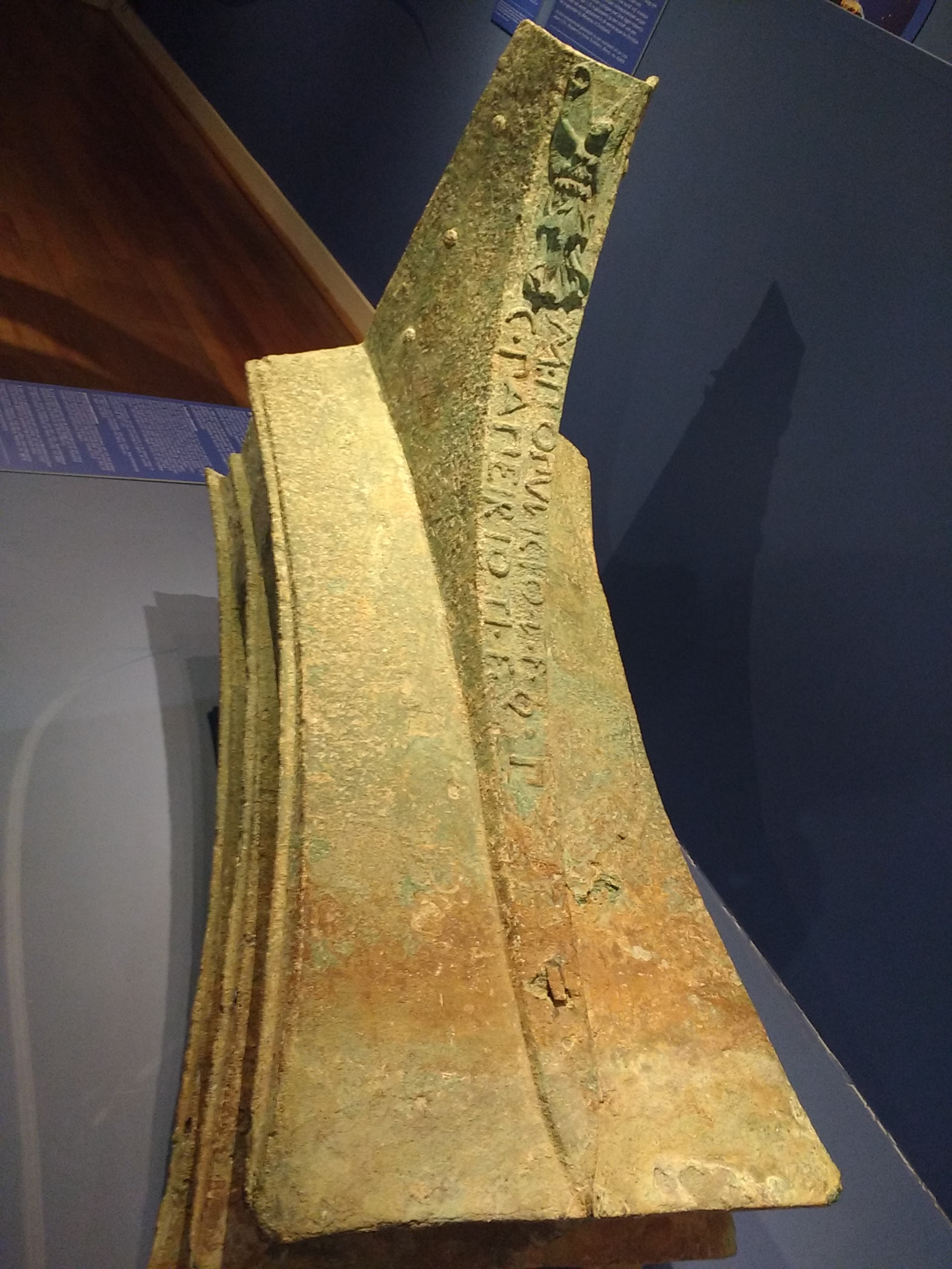 Bronze Roman naval ram, dated before 241 B.C. Includes winged decoration of the goddess of Victory and inscriptions referring to the Roman officials Marcus Publicius and Gaius Papirius. The inscription reads: M(arcos) POPULICIO(s) L(ucii) F(ilios) Q(uaestores) P(robaverunt) C(aios) PAPERIO(s) TI(beri) F(ilios).